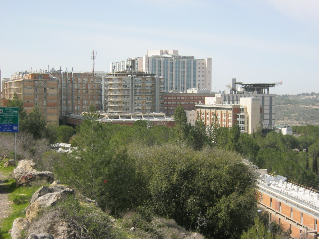 Hadassah Ein Kerem Medical Center Campus, Jerusalem, Israel